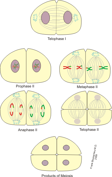 Meiosis Stage II